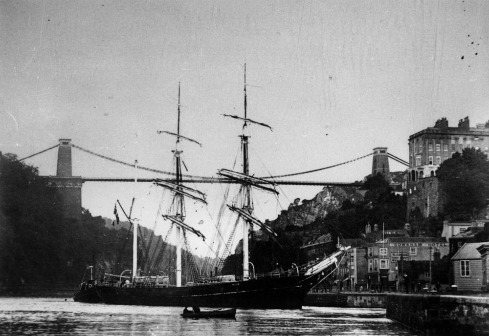 Norwegian barque Kylemore, built 1880 at Port Glasgow, photographed at Bristol.